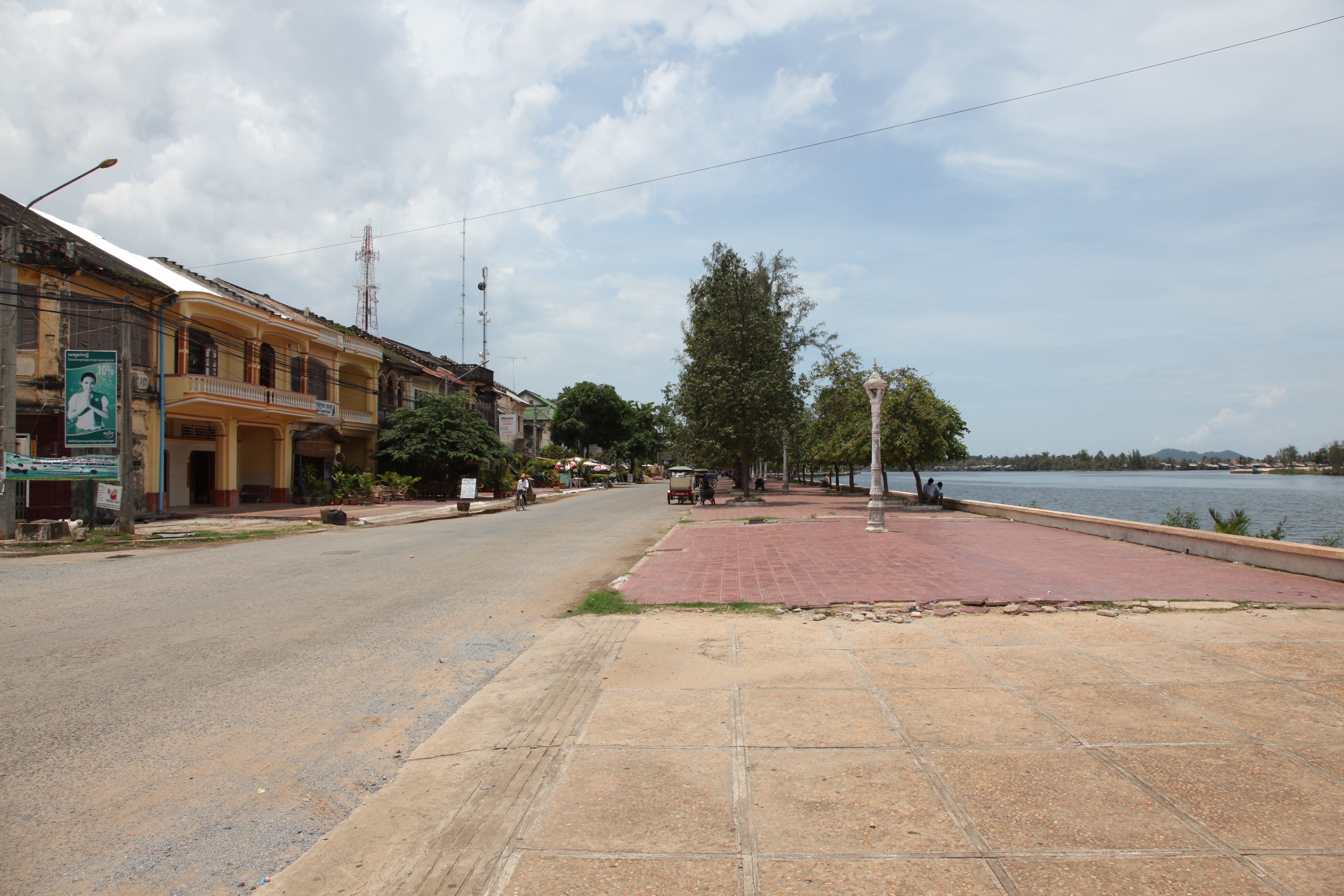 Riverside street in Kampot, Cambodia